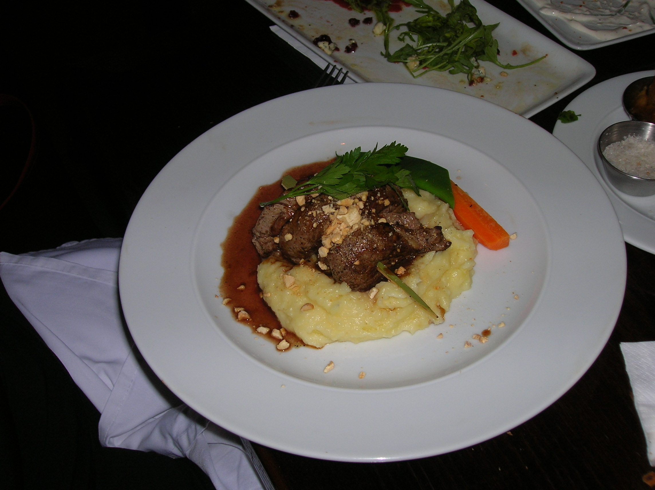 Avi biton 2011 3